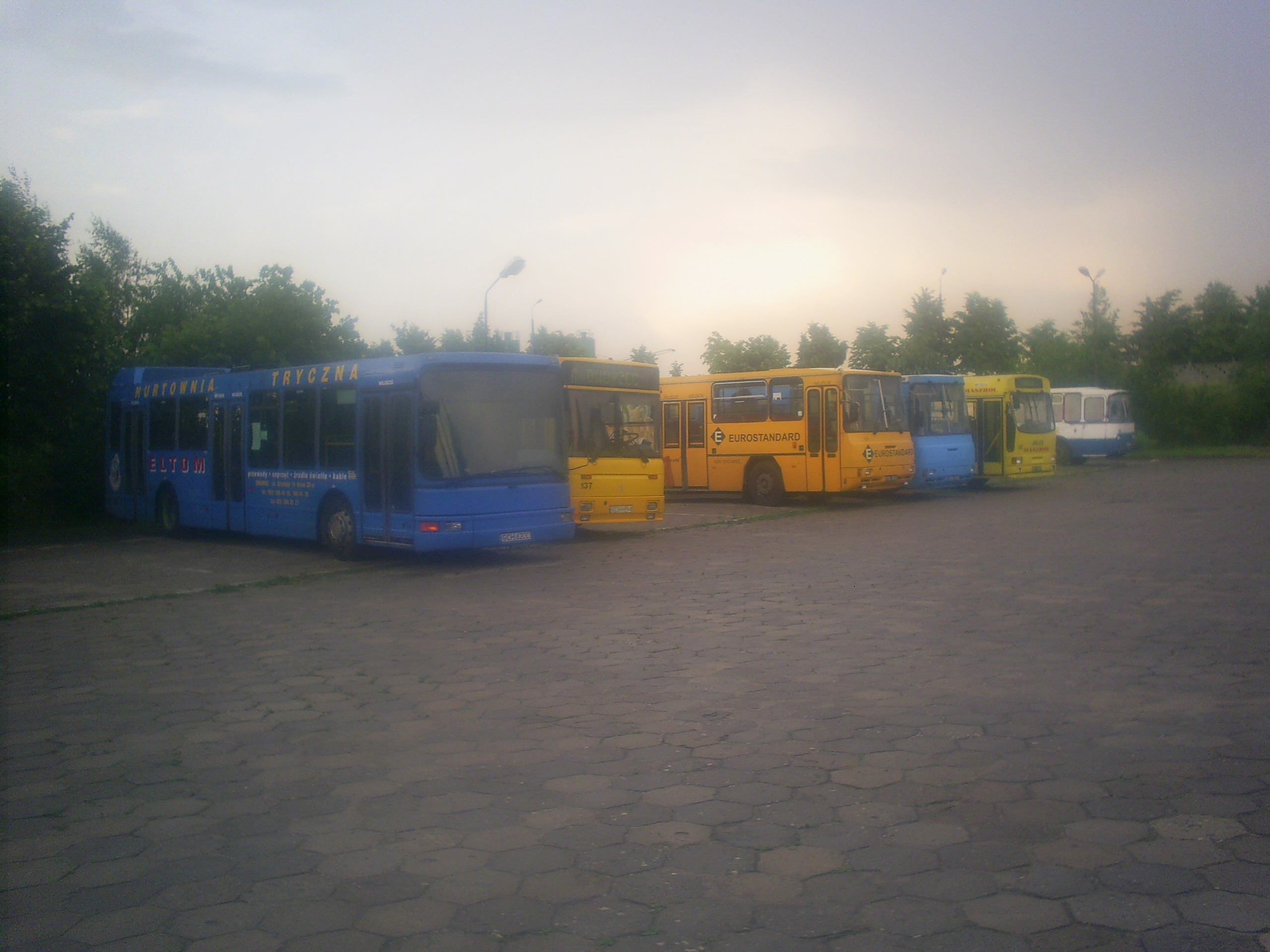 From left to right: DAB 15-1200C bus (built 1996), Autosan A1010M Medium bus (built 2000), Autosan H10-11.05 bus (built 1991), Autosan H10-11.08 bus (built 1991), Jelcz PR110M bus (built 1992) in Chojnice, Poland.